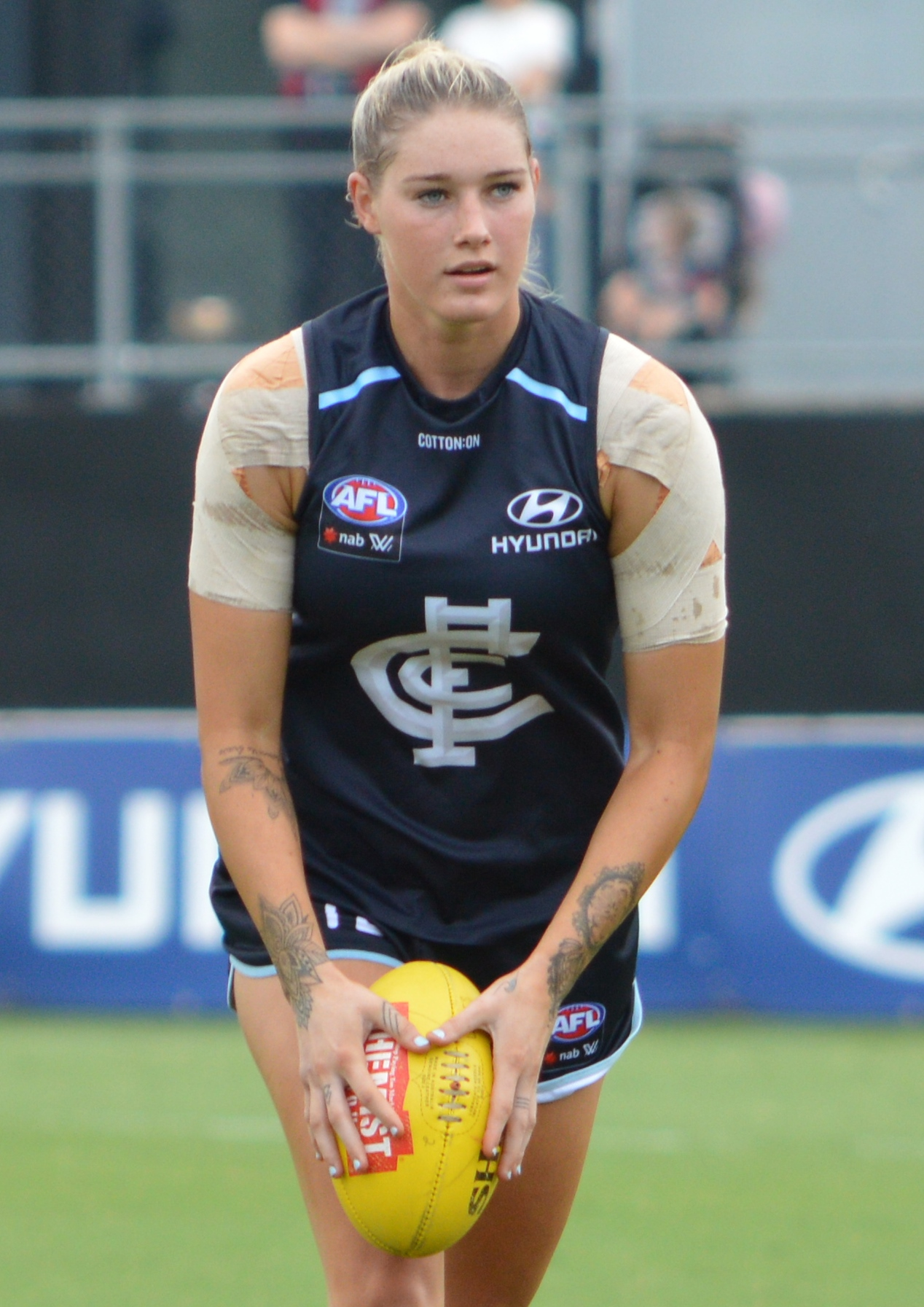 Tayla Harris during the round 6, 2018 AFL Women's match between Carlton and Melbourne.